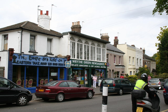 Wrythe Green Newsagents, Carshalton In fact, a general shop. The ornate frontage on the upper storey suggests that it may once have been a cafe. The motorcyclist, armed with digital camera, is there to target illegal parkers.